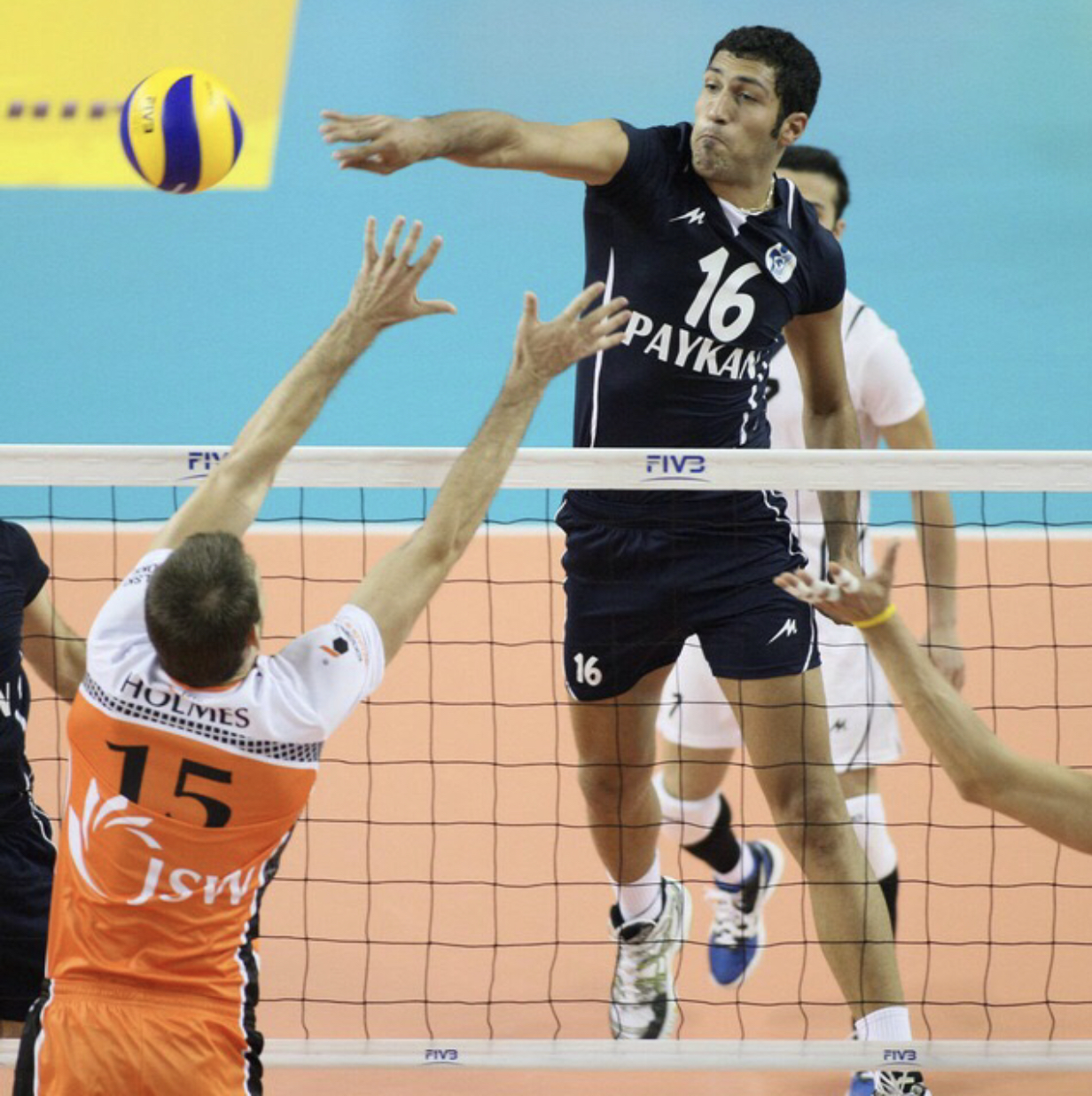 تیم ملی والیبال تیم باشگاهی